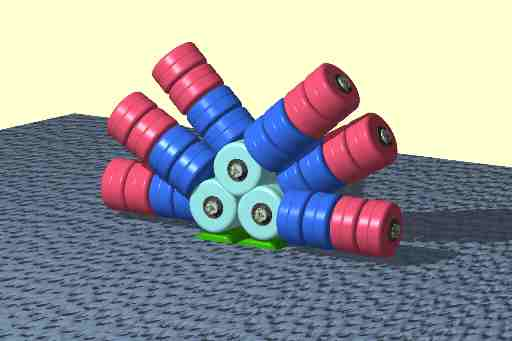 Schematic of a hemi-discoidal phycobilisome. For more information on what the actual subunits are, see PMID 26417362.